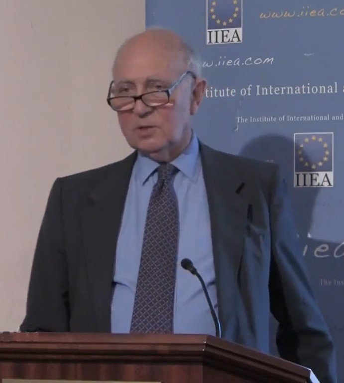 The Right Honourable David Hugh Alexander Hannay, Baron Hannay of Chiswick, Knight Grand Cross of the Most Distinguished Order of Saint Michael & Saint George, Companion of Honour, gives a speech on Britain in Europe.